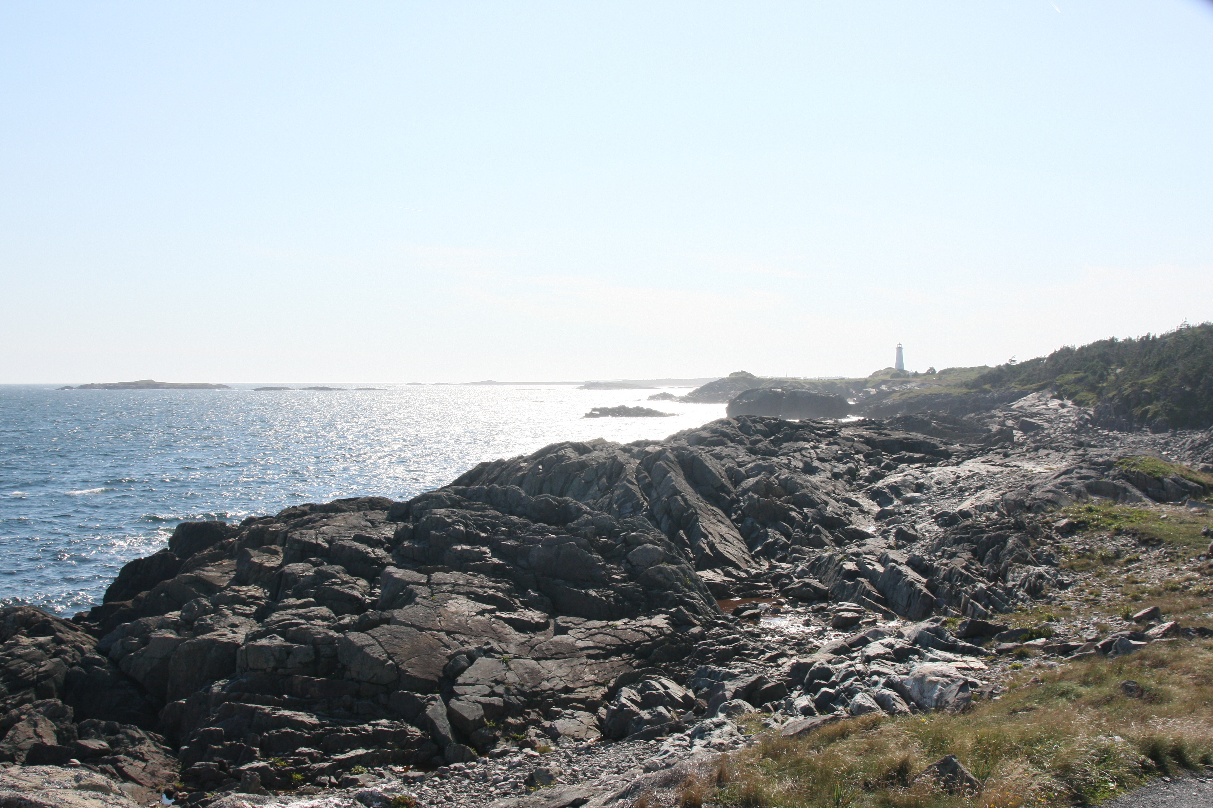 Lighthouse Cove in the centre of the photo, with Louisbourg Lighthouse to the right and the Fortress of Louisbourg in the distance beyound the lighthouse.